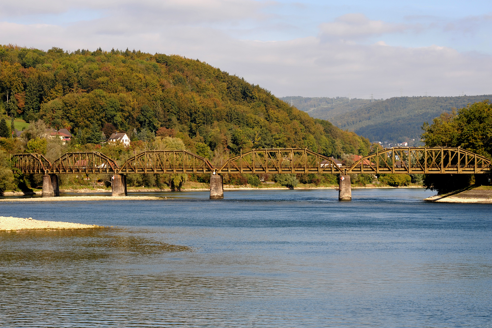 SBB bridge crossing the Aare between Koblenz and Felsenau; Aargau, Switzerland.